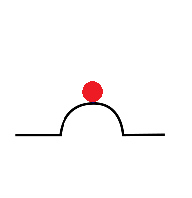 Kararsızlık durumu